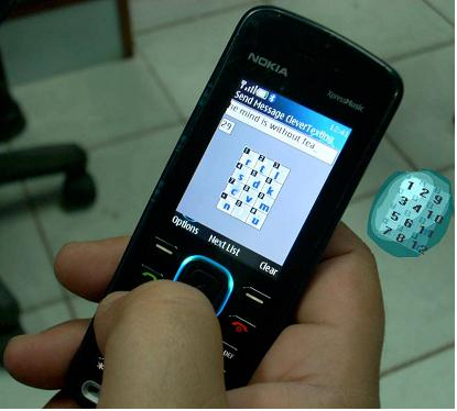 Panini Keypad, an Indian innovation helps messaging in any regional or international language with great ease. Nokia 5220